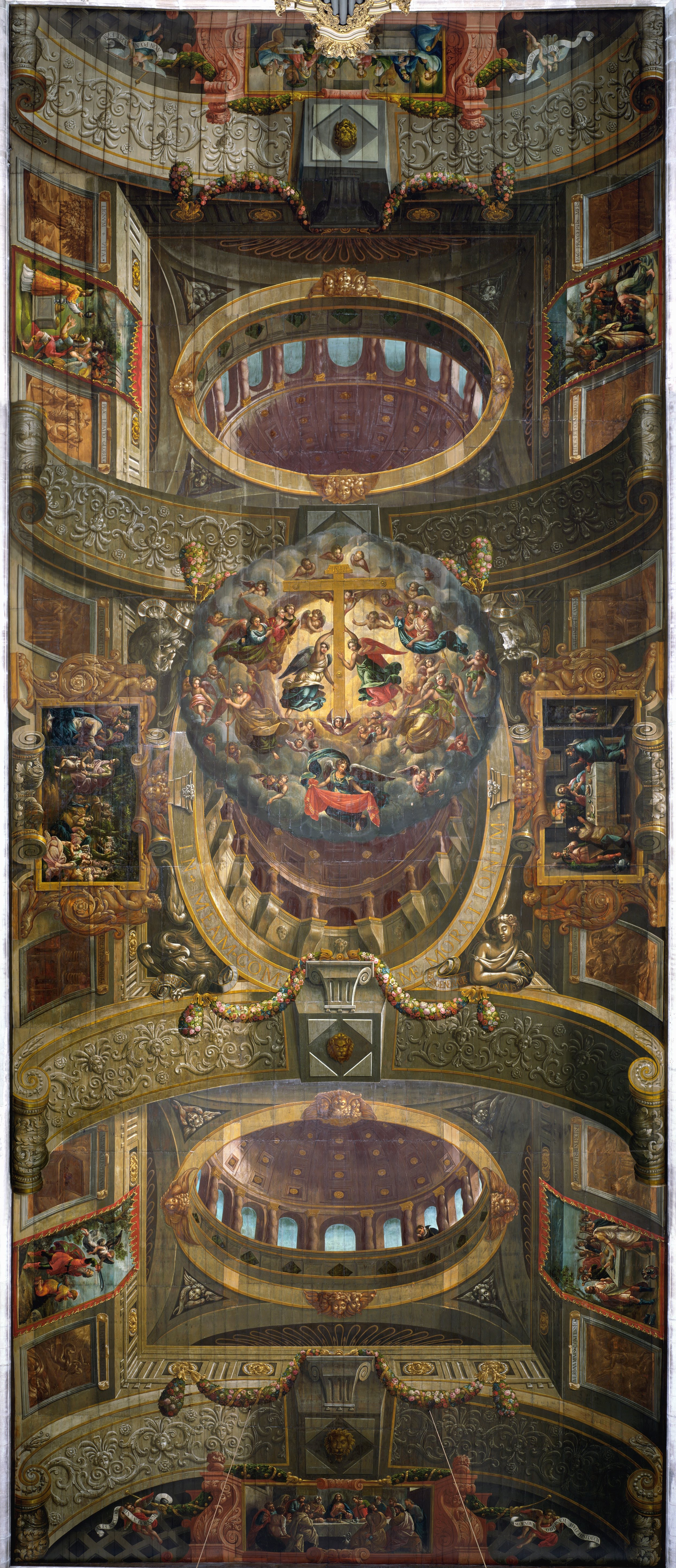 Painted ceiling of the Church of St. Roch, in Lisbon. The painted ceiling of the nave is a trompe l'oeil composition so as to give the illusion of a barrel vaulting supported by four large arches. Between the arches squared balconies are painted and "above" these balconies there are three huge domes or cupolas rising on rings of open arches and columns. The initial work was painted in 1588 by Francisco Venegas (1578-1590), royal painter to King Philip II. The Jesuits commissioned later the large central medallion (The Exaltation of the Cross), as well as the 8 large rectangular paintings and 12 monochrome panels depicting Biblical events. The ceiling near the front of the church was damaged in the 1755 Earthquake and was rebuilt and repainted afterwards. It is the oldest painted ceiling remaining in Lisbon.